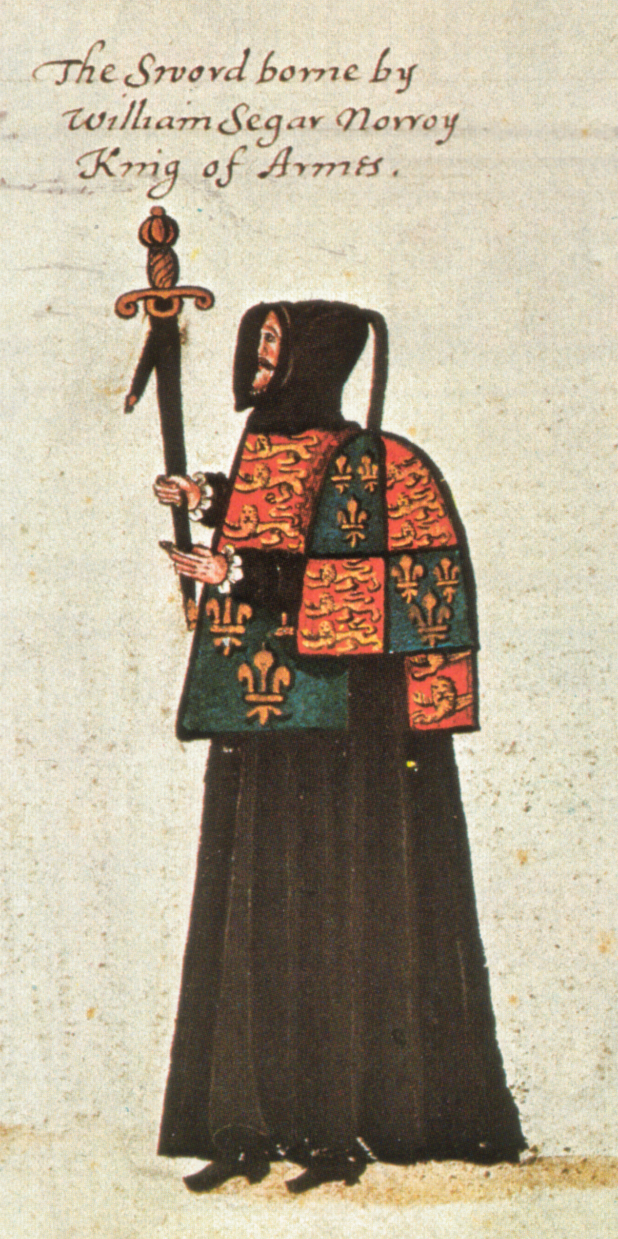 Funeral procession of Elizabeth I of England, 1603. Inscription: "The Sword borne by William Segar Norroy King of Armes."